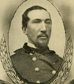 Colonel Carlos P. Messer of the 50th Regiment Massachusetts Volunteer Infantry